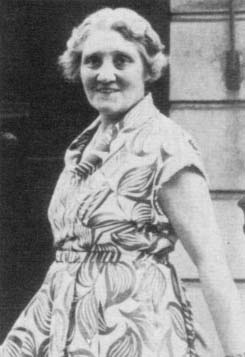 The psychical researcher K. M. Goldney